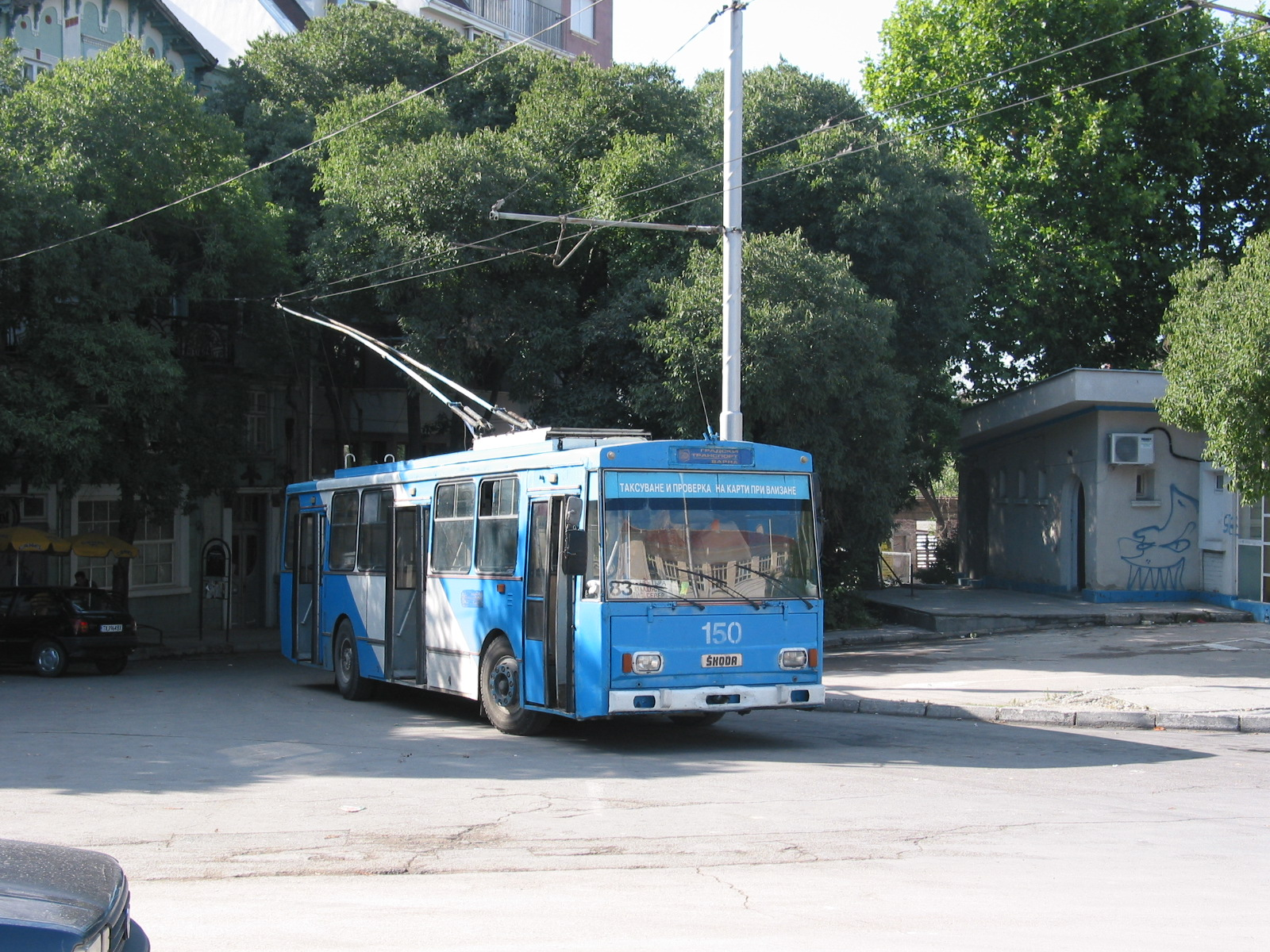 Trolleybus Škoda 14Tr in Varna, 2005